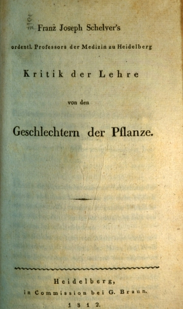 The title page of the book Kritik der Lehre von den Geschlechtern der Pflanze (1812) of german botanist Franz Joseph Schelver (1778—1832).